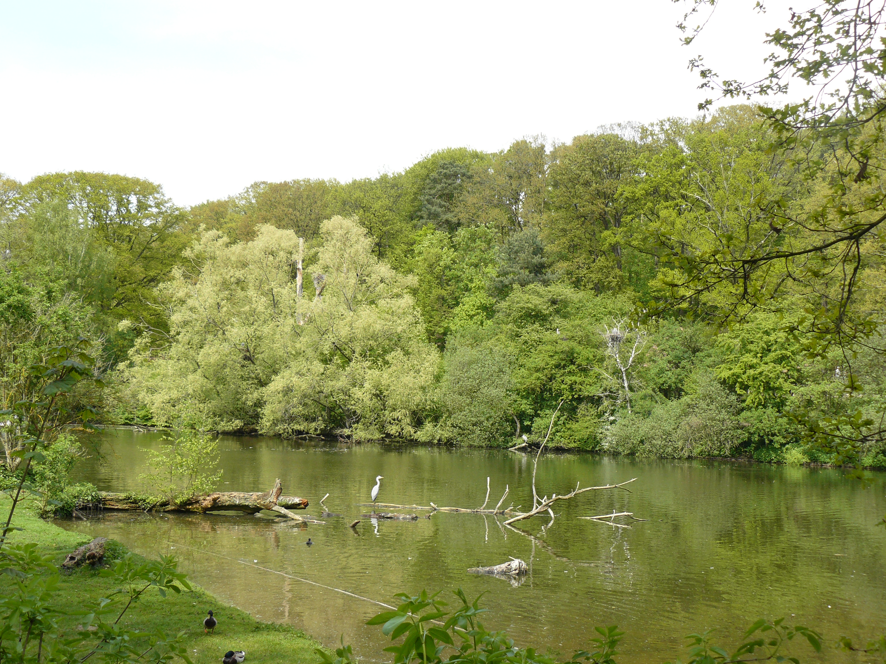 Lake at Tiergarten Nuremberg, Germany